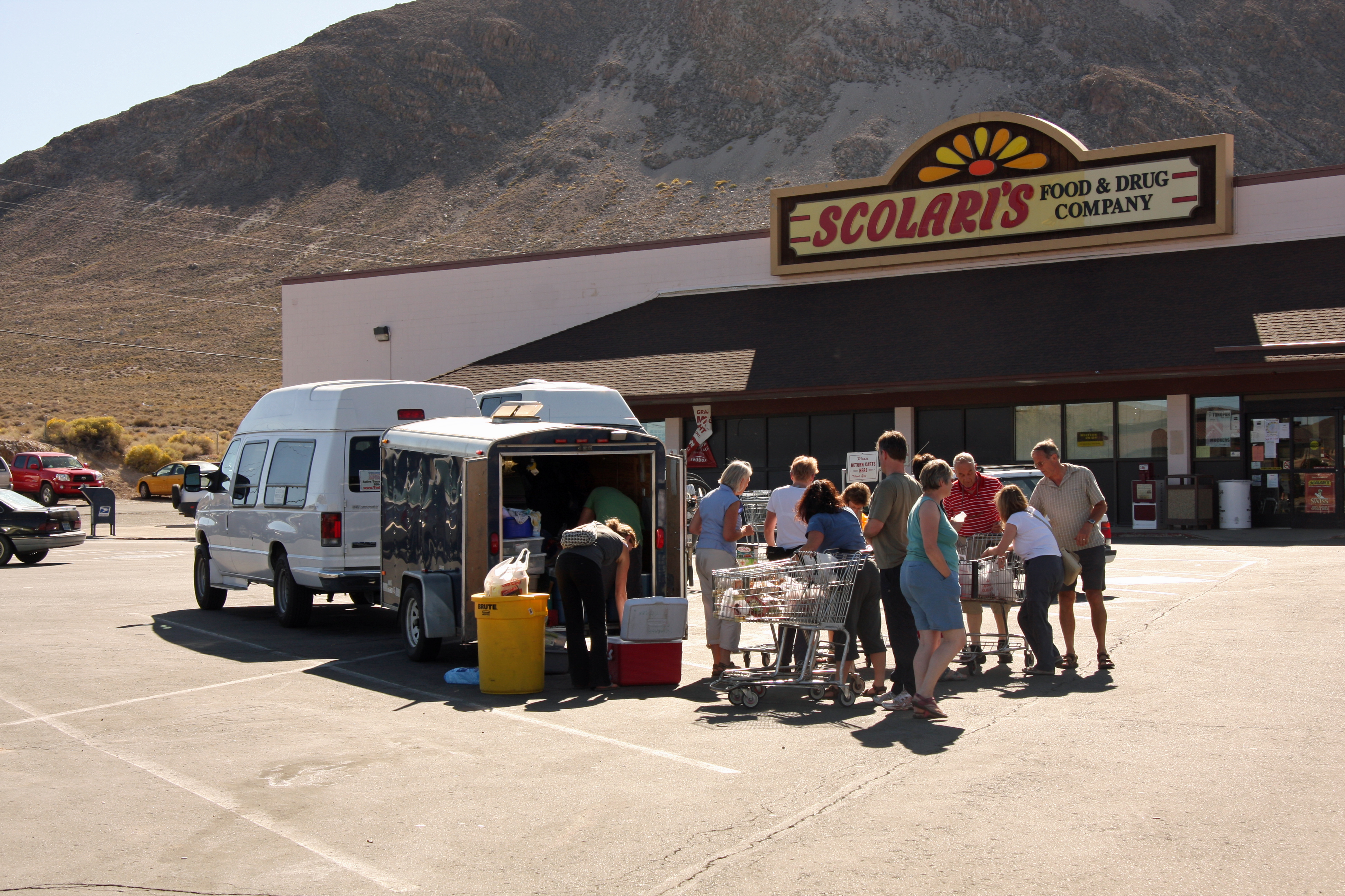 Towards Mono Basin 3